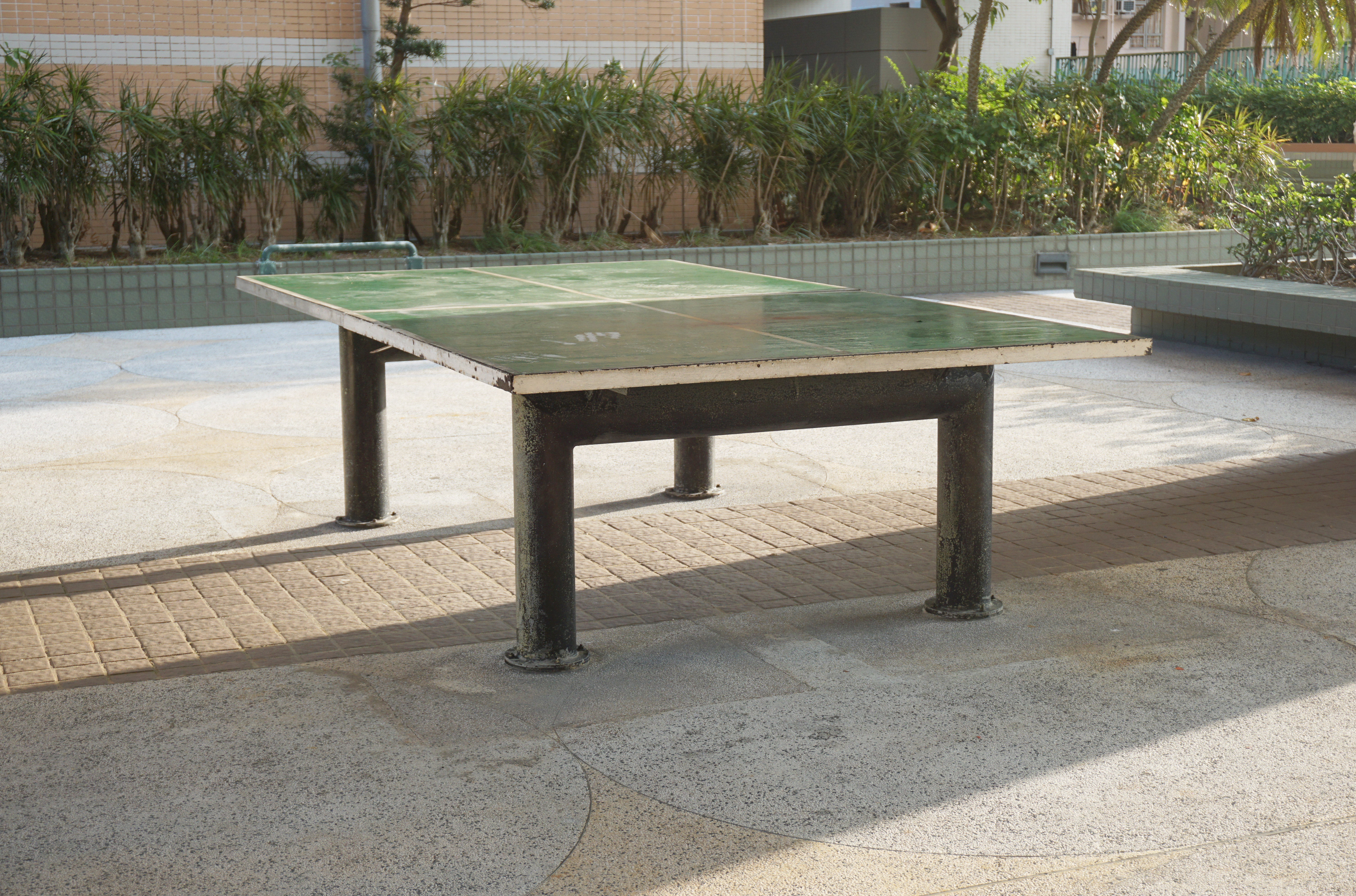 Yau Mei Court in Yau Tong, Hong Kong.